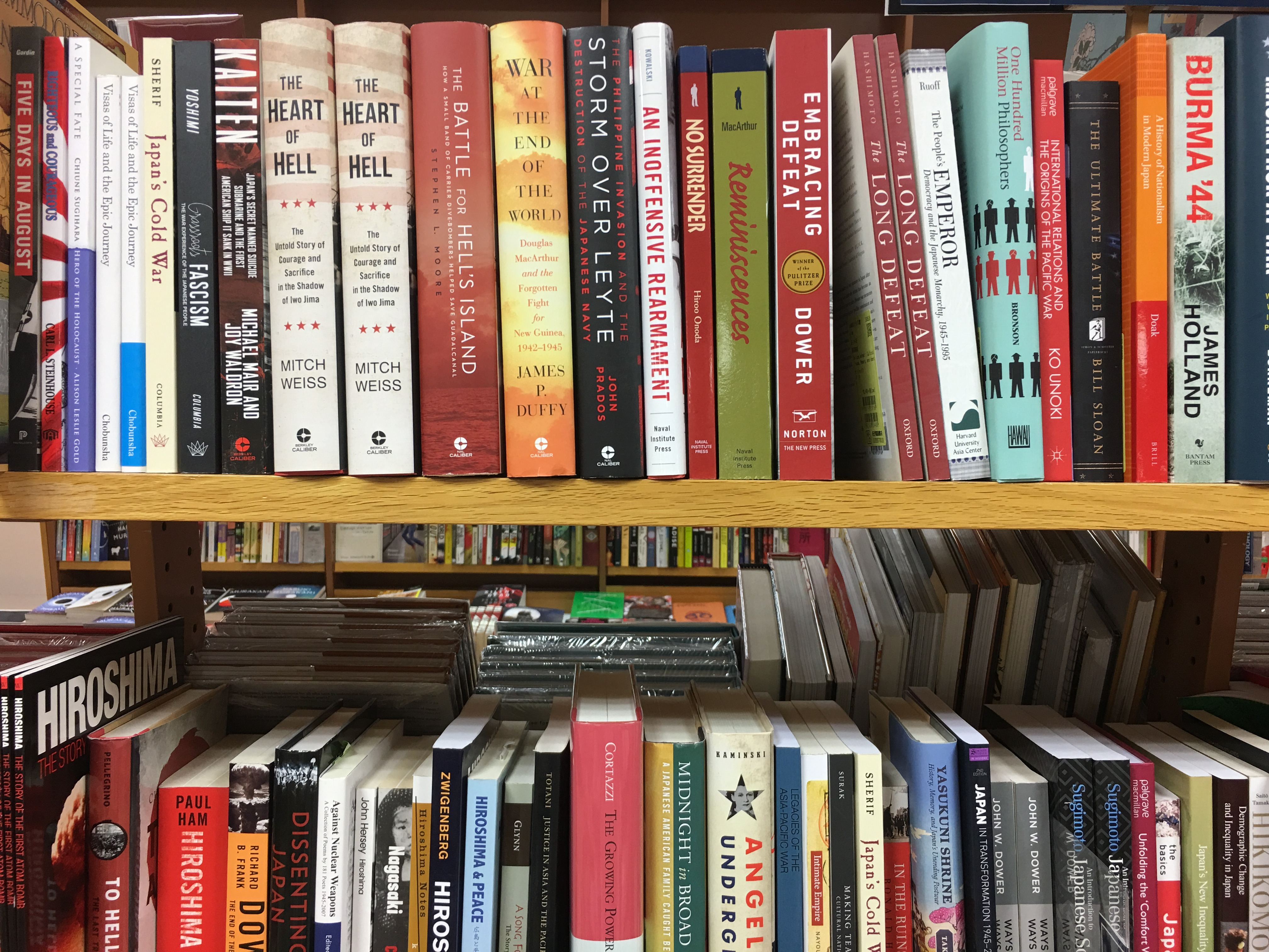 Book shop with non fiction books on Japan